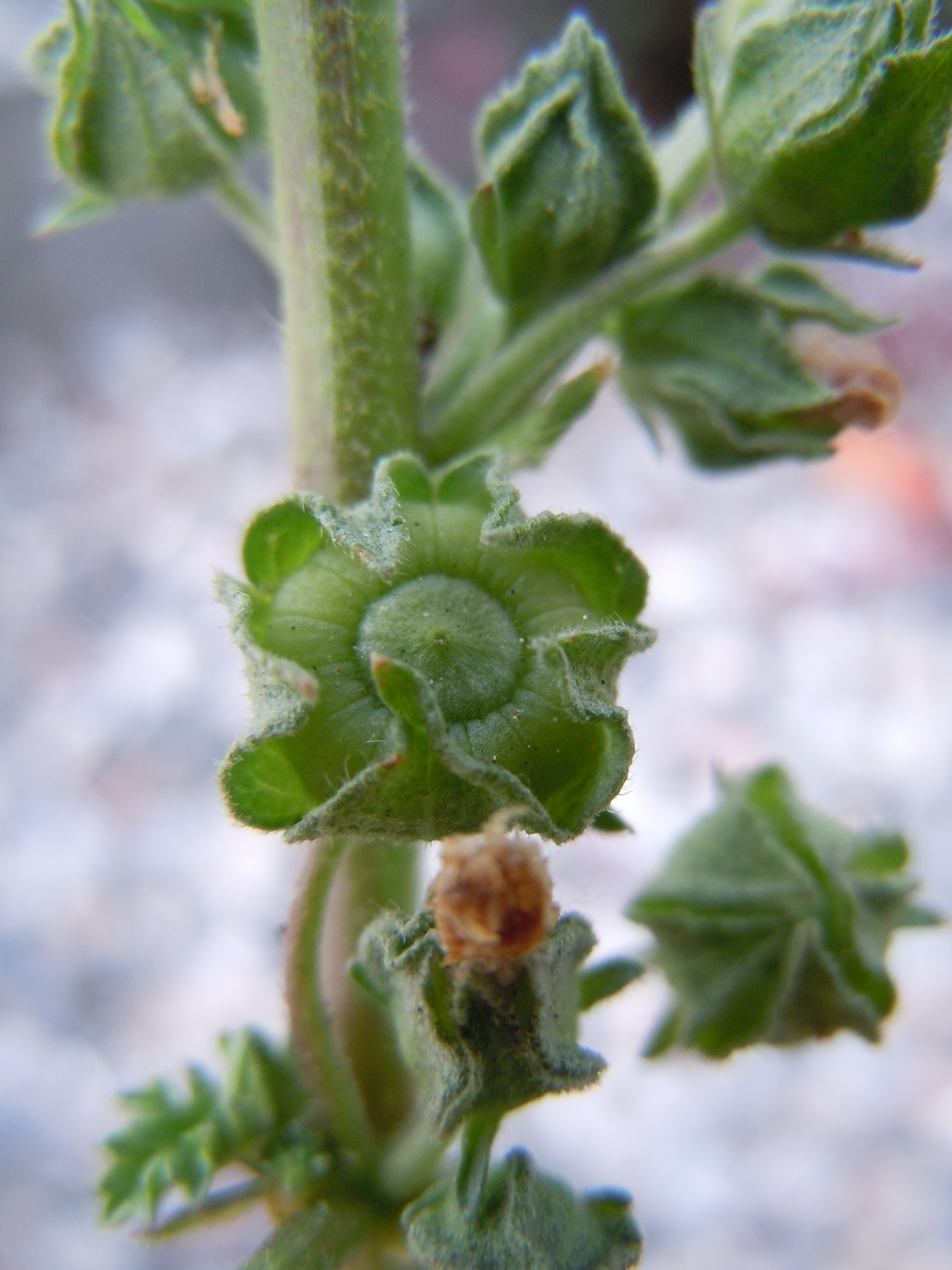 The individual sections of fruit (mericarps) are smooth on the back.